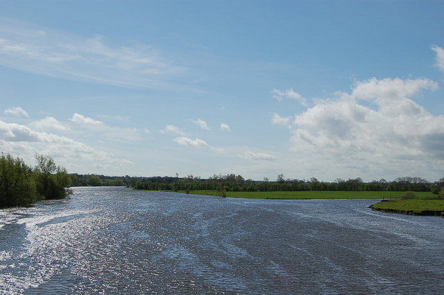 River Bann and the Agivey River from the Agivey Bann Bridge. Looking SSW at the confluence of the River Bann (left) and the Agivey River (right) from the Agivey Bann Bridge.